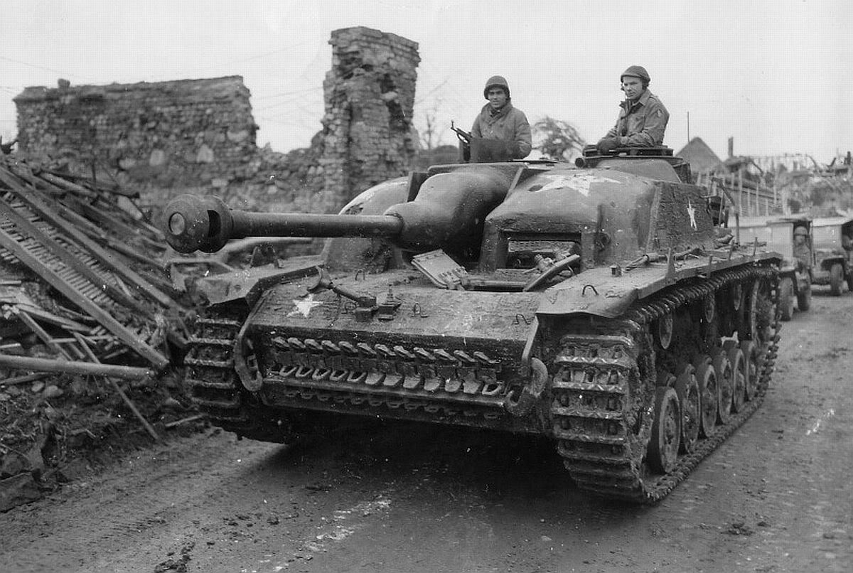 A German Sturmgeschütz III that was captured during January-February 1945 in the Battle of the Bulge by the U.S. Army's 104th Infantry Division, here seen in service with the 104th Division. The Americans have added concrete armour, and a large white star painted on top to avoid fire from friendly aircraft. This photo was taken by a U.S. Army journalist embedded in the 104th.